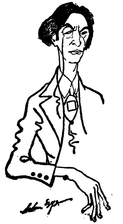 Caricature of Moshe Broderson by Arthur Szyk